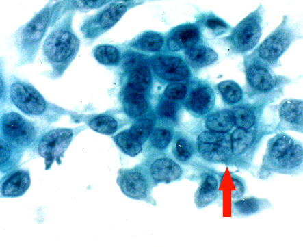 Impression cytology smear stained by Papanicolaou stain. This specimen was obtained from a patient with a classical dendritic ulcer clinically diagnosed as HSK. Note the presence of a multinucleated giant cell (arrow), Magnification = 500